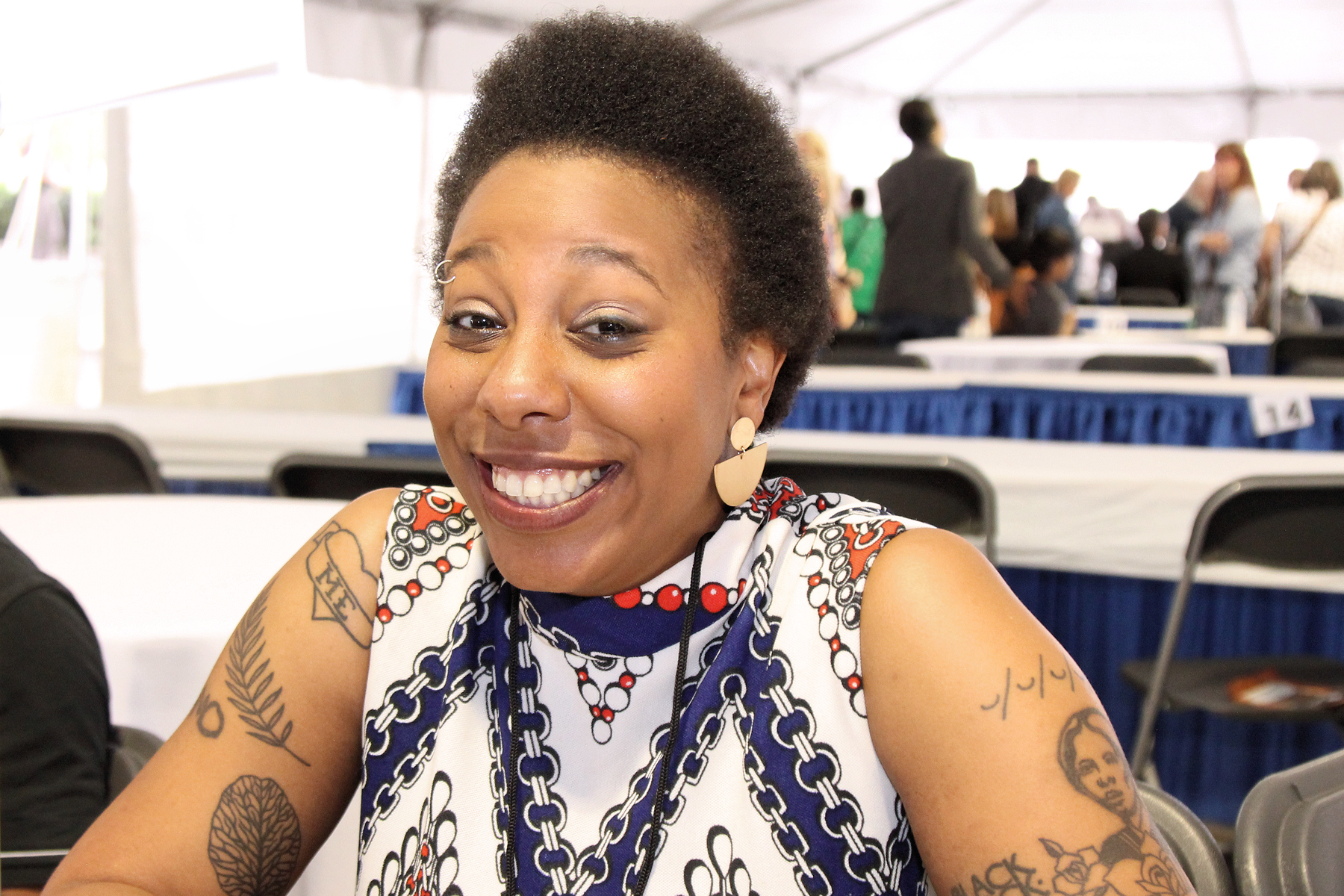 Author Morgan Parker at the 2017 Texas Book Festival.